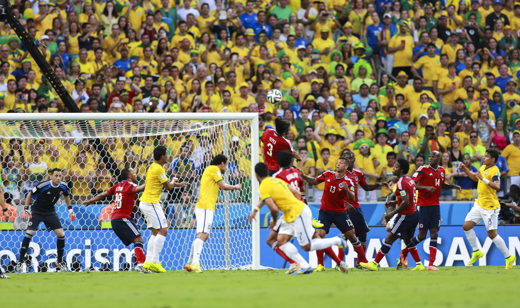 Brazil and Colombia match at the FIFA World Cup 2014-07-04